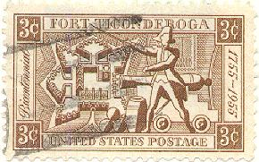 United States postage stamp of 1955 depicting Ethan Allen and Fort Ticonderoga